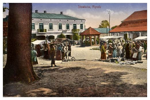 Postcard, Sławków (Poland), Market Square 1919